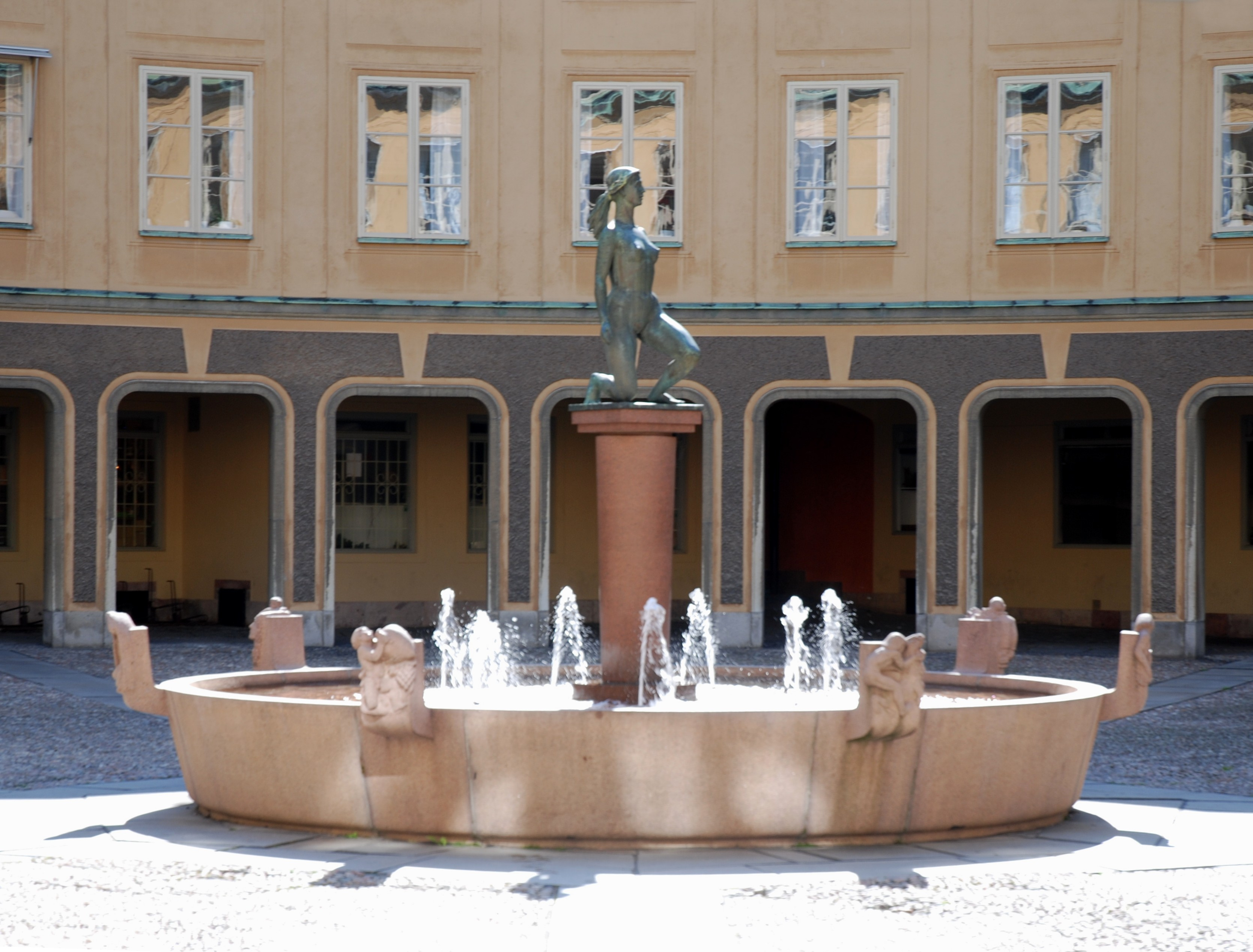 Inner court of former Swedish Government Chancellery Building Annex, Stockholm, seen fom Rådhusgränd, with the fontain Morgon (Morning) by Ivar Johnsson, 1962